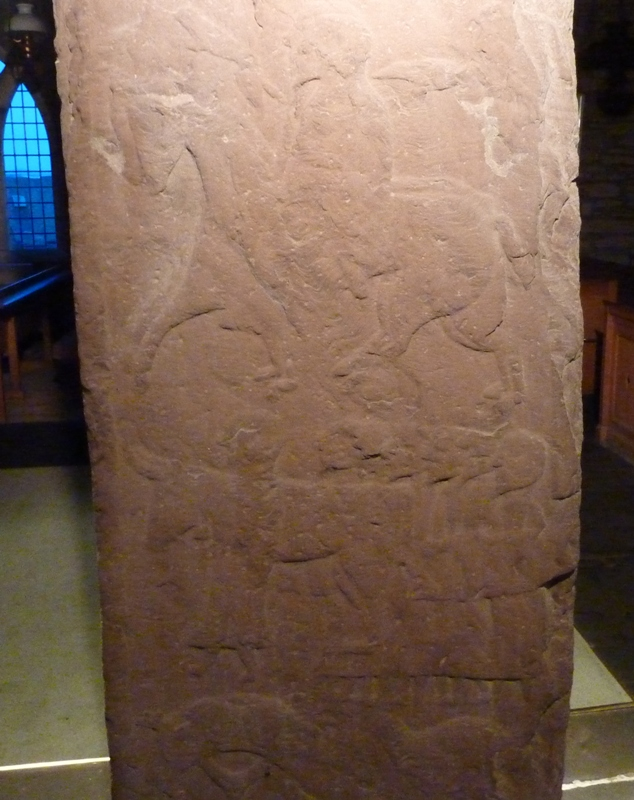 Fowlis Wester Sculptured Stone, Fowlis Wester, Perth and Kinross, Scotland - back side detail